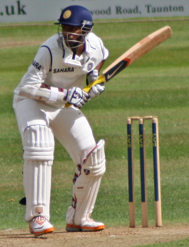 Abhinav Mukund batting for India during their first match of their 2011 tour of England, played at the County Ground, Taunton.